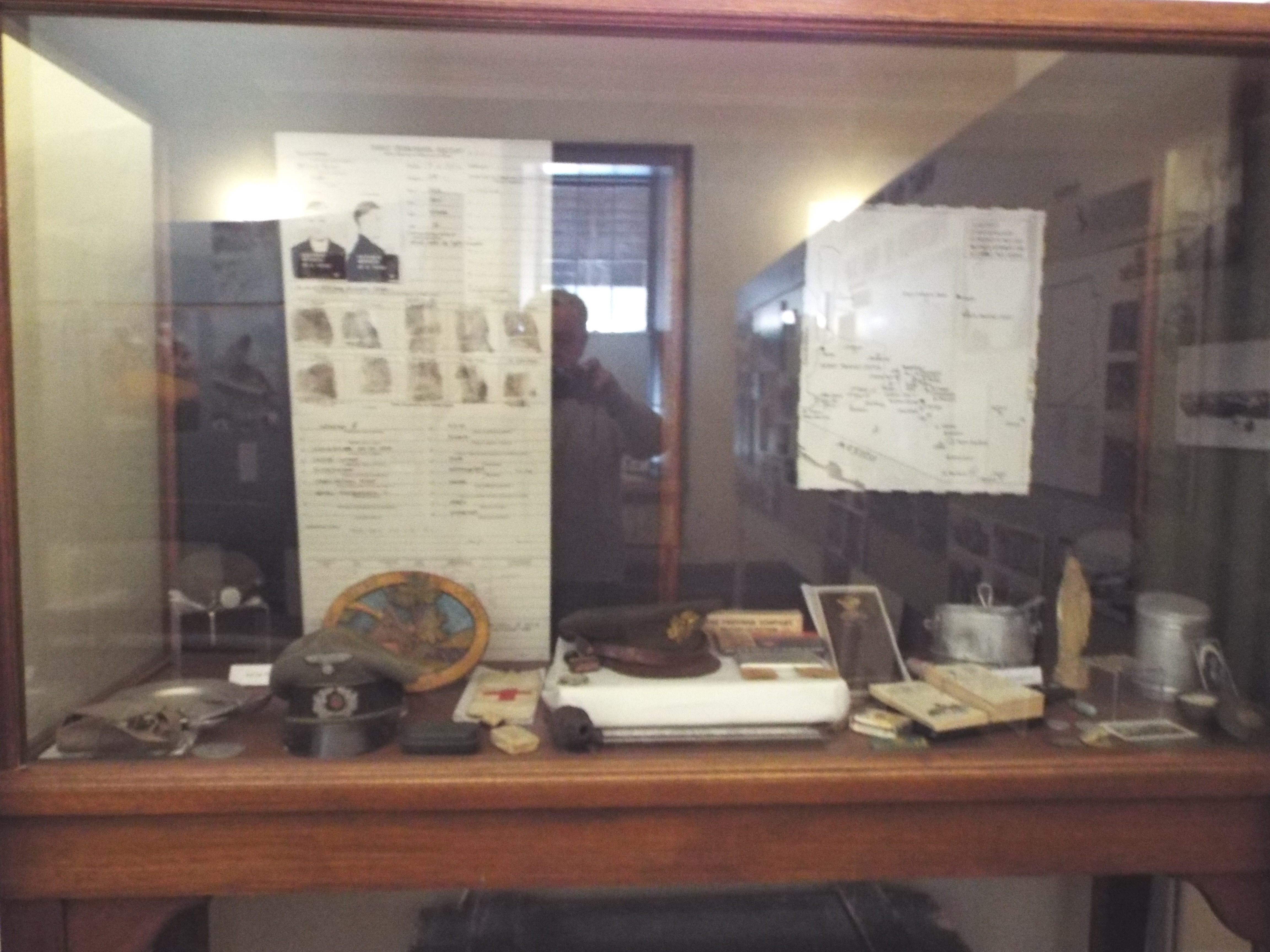 Display of artifacts form the German World War II POW's who where imprisoned in Florence.